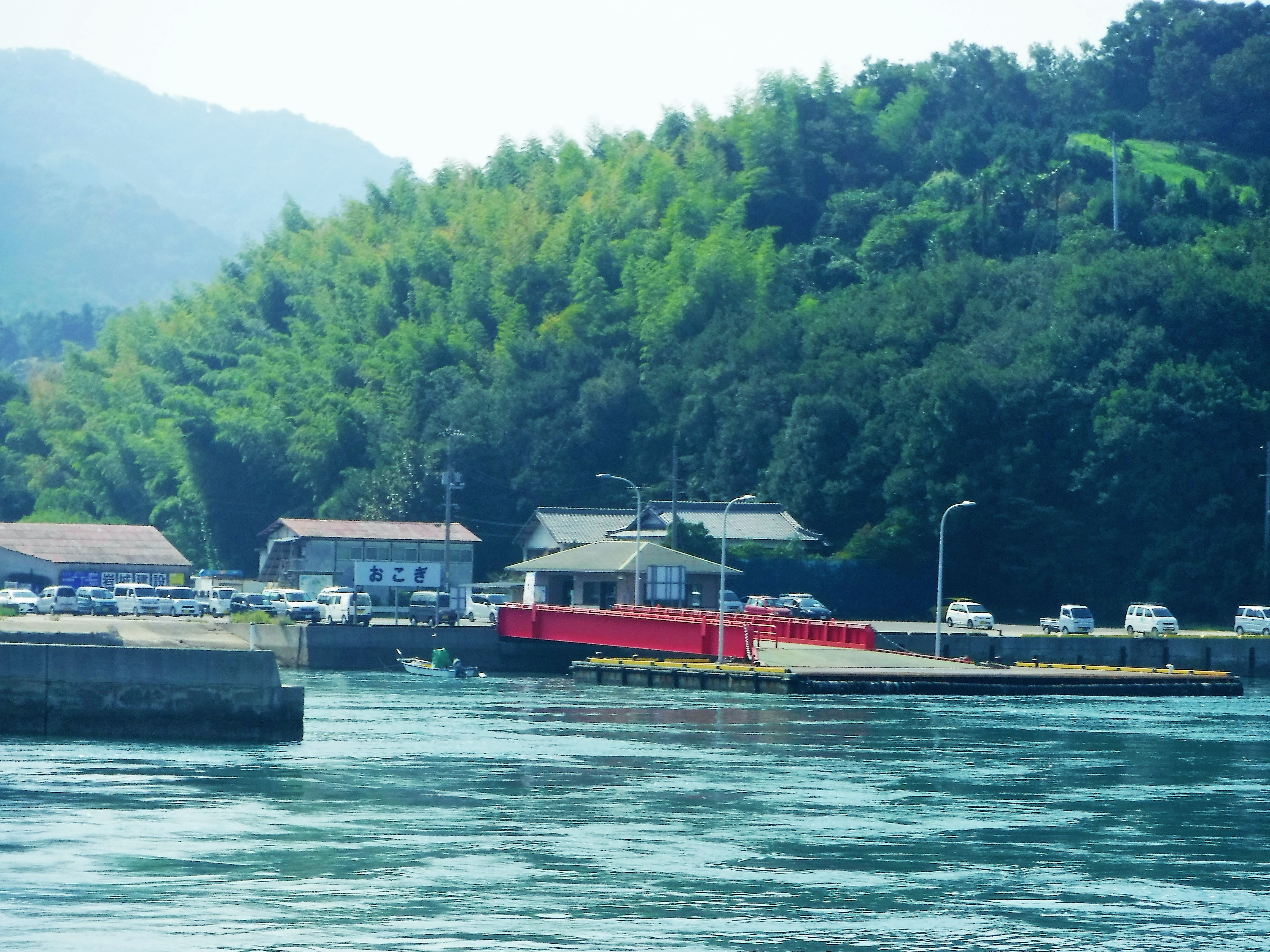 okogi-harbor, iwaki-island, ehime-pref, JAPAN